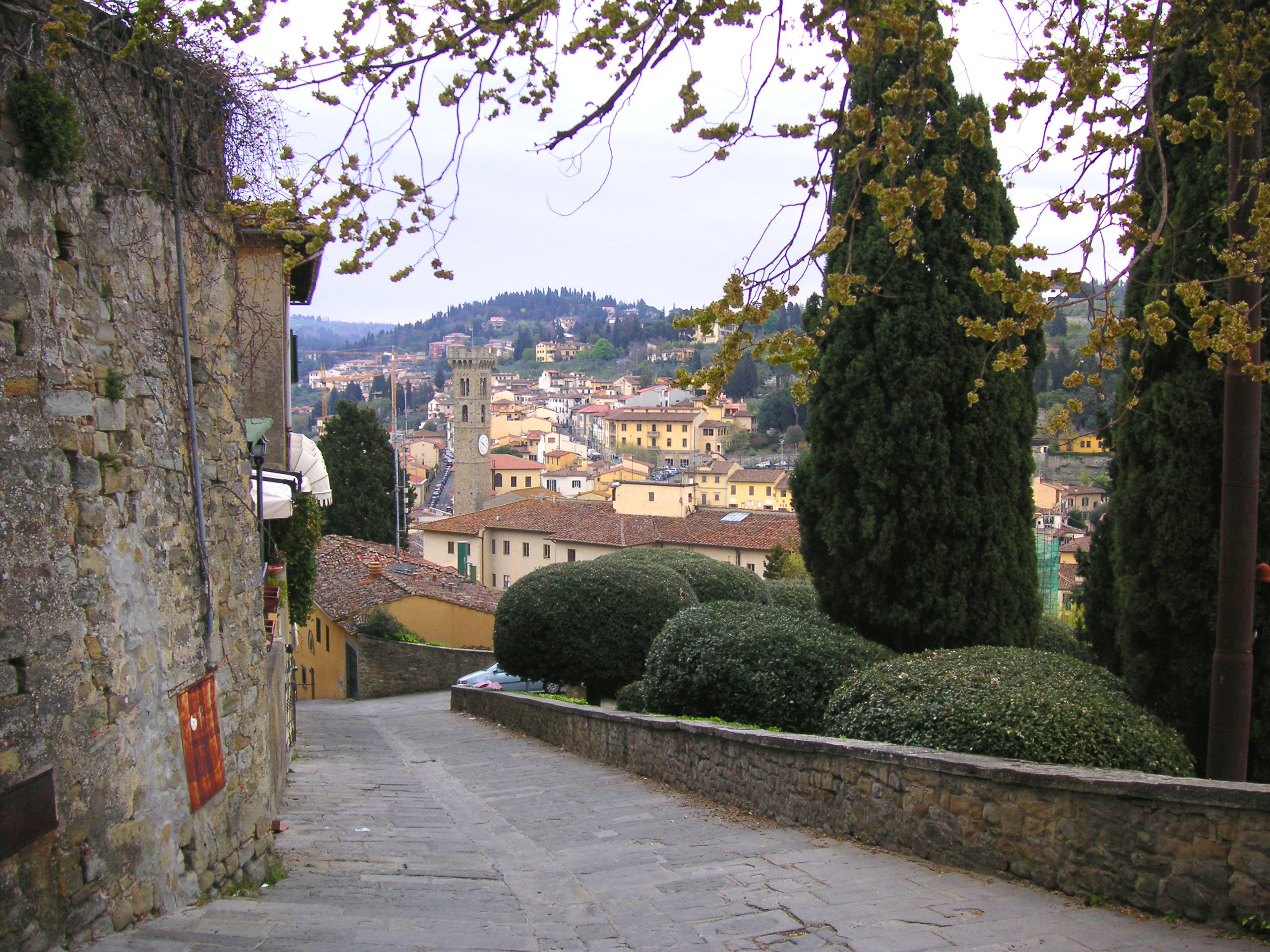 View to Fiesole in Florence, Italy